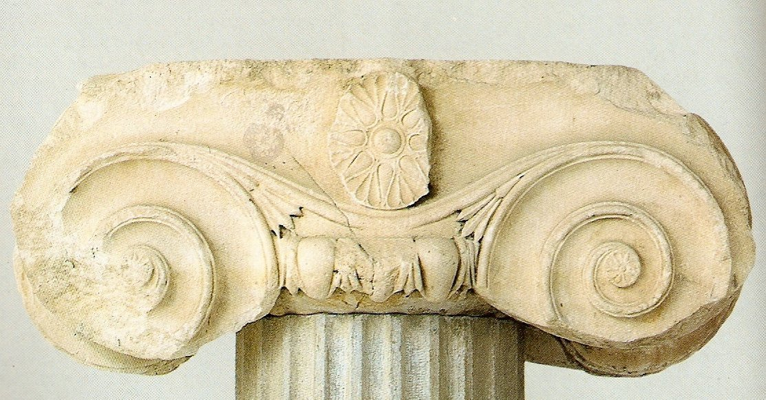 ionic capital from thasian marble of the late - archaic temple of goddess Parhenos in ancient Neapolis, nowdays Kavala, Eastern Macedonia, Greece, end 6th century B.C.